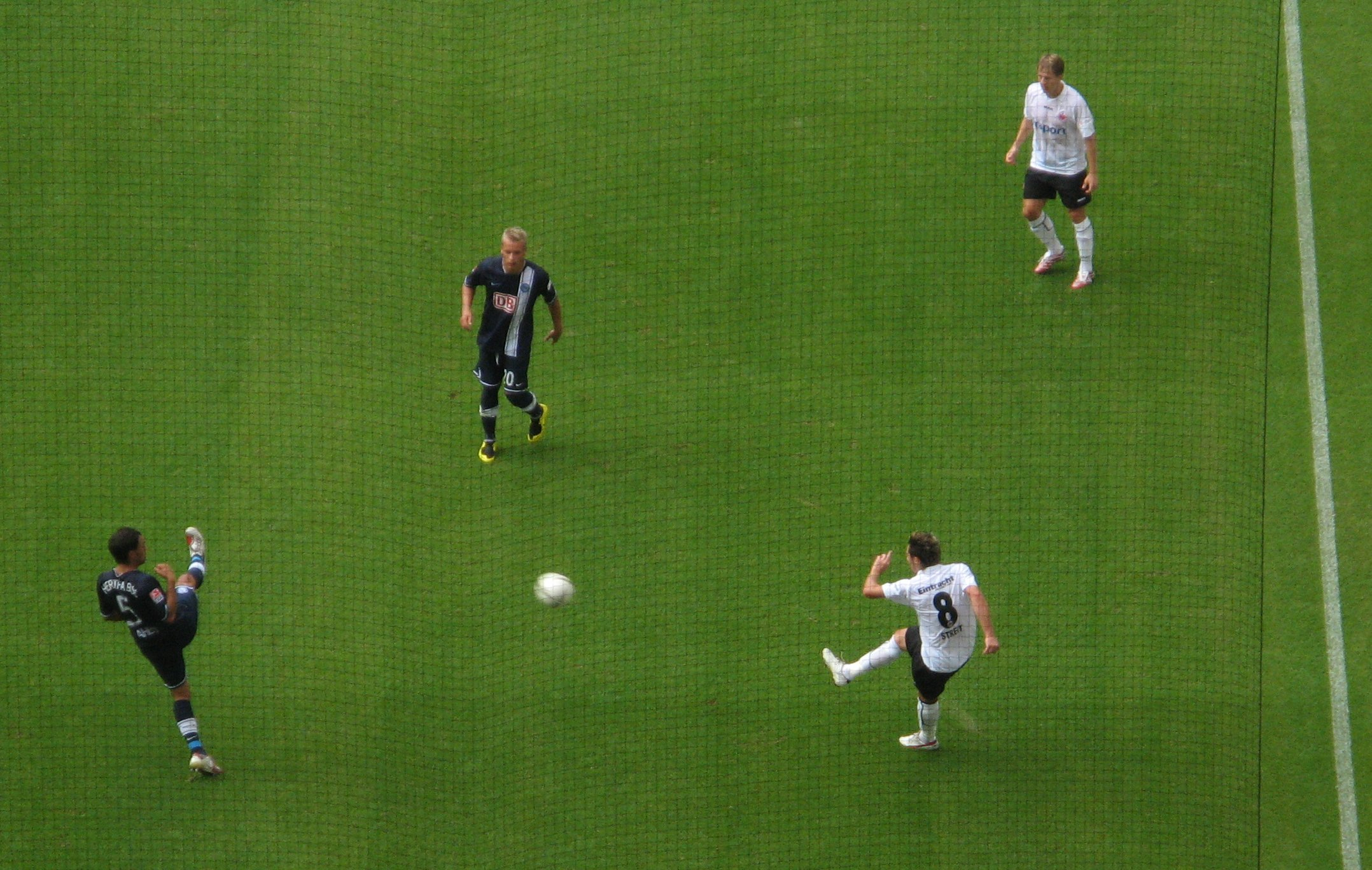 Bundesliga game Eintracht Frankfurt vs Hertha BSC Berlin (1:0) Albert Streit (Frankfurt) passes while Sofian Chahed (Hertha) tries to stop the pass